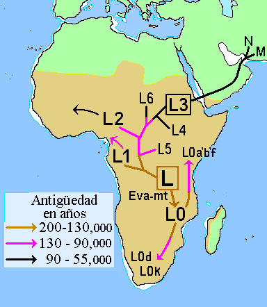 African Mitochondrial descent